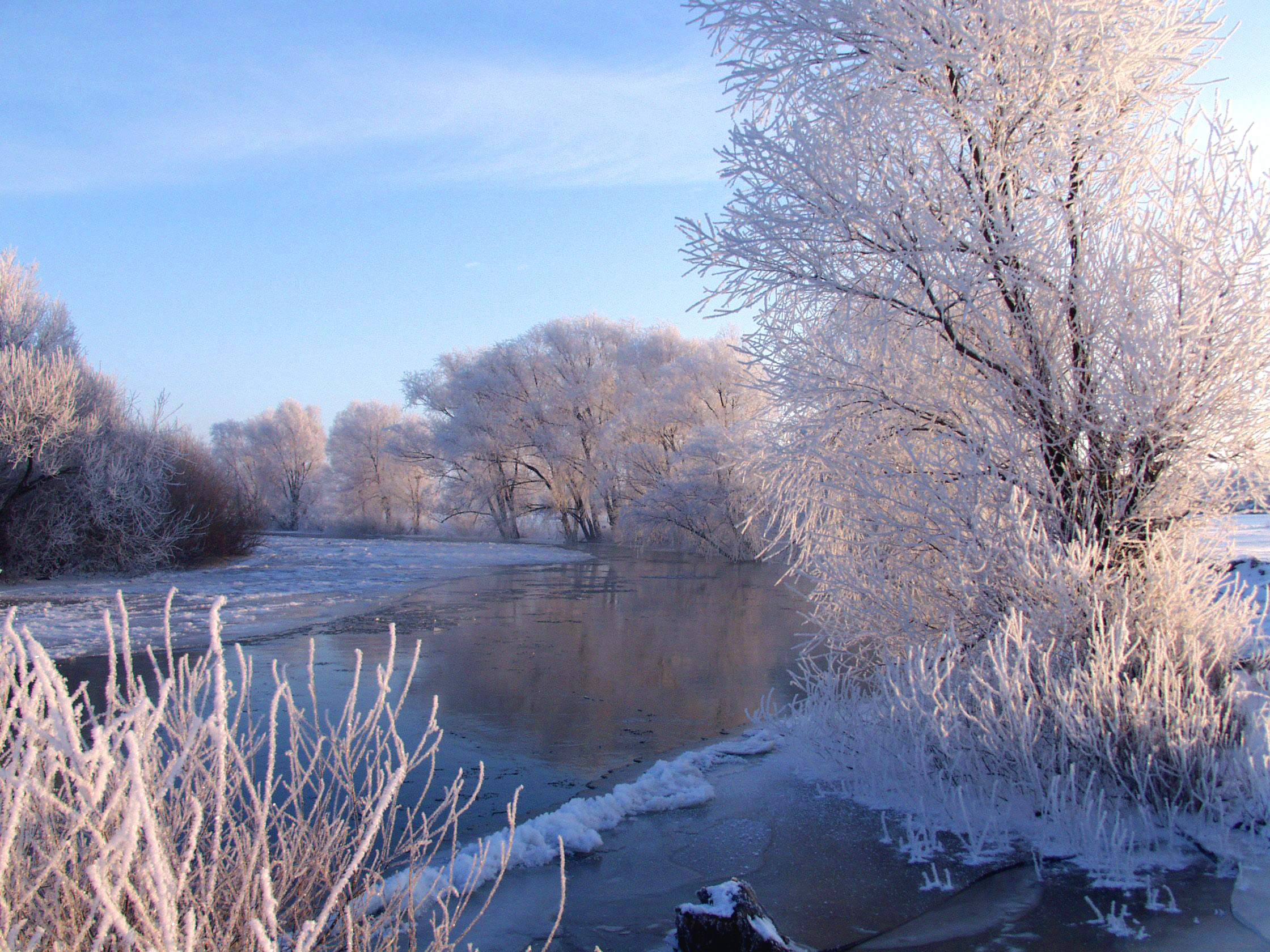 The Styr in Kuznetsovsk